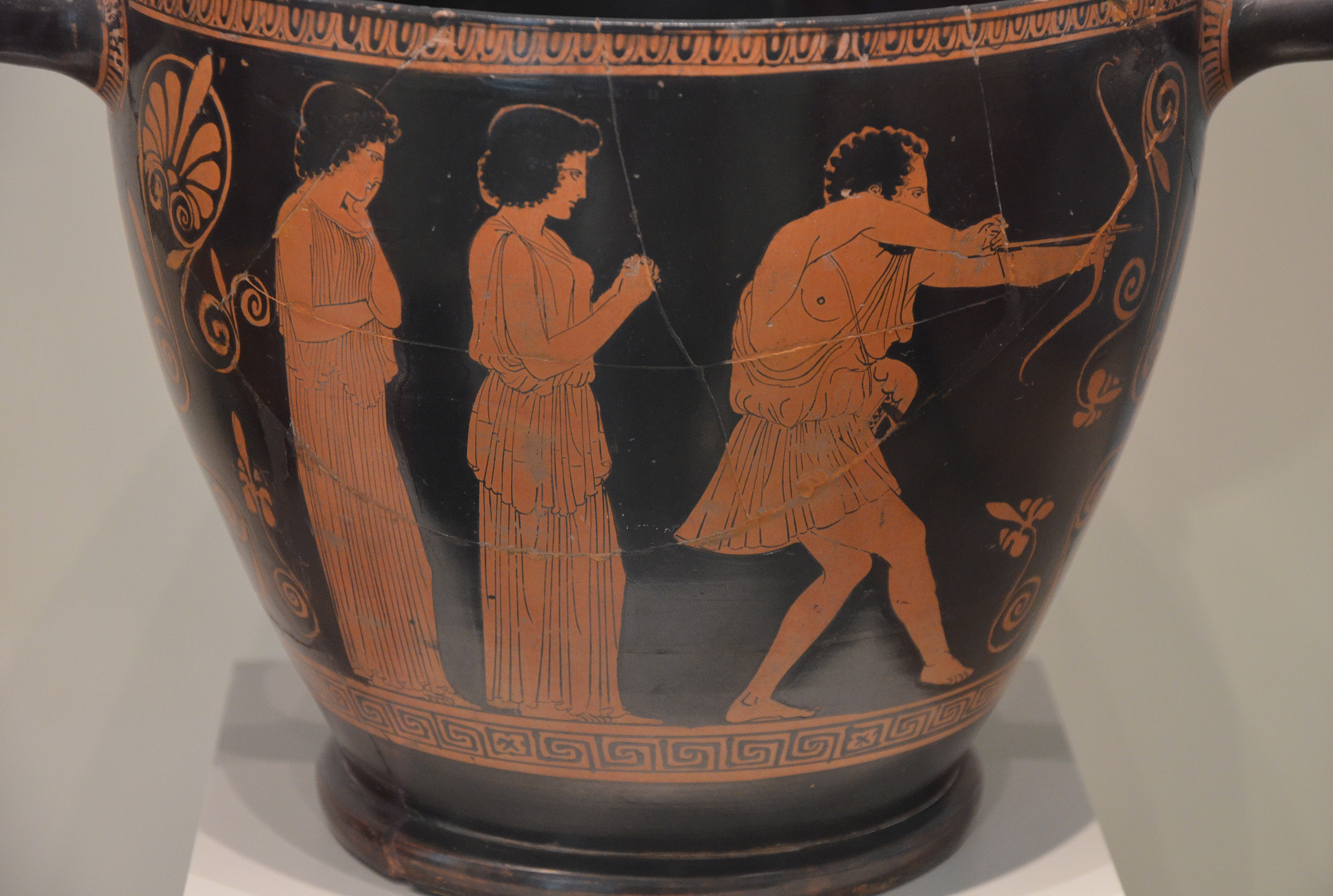 Attic red-figure skyphos, Odysseus slays the suitors of his wife Penelope, from Tarquinia (Italy), around 440 BC, Altes Museum Berlin